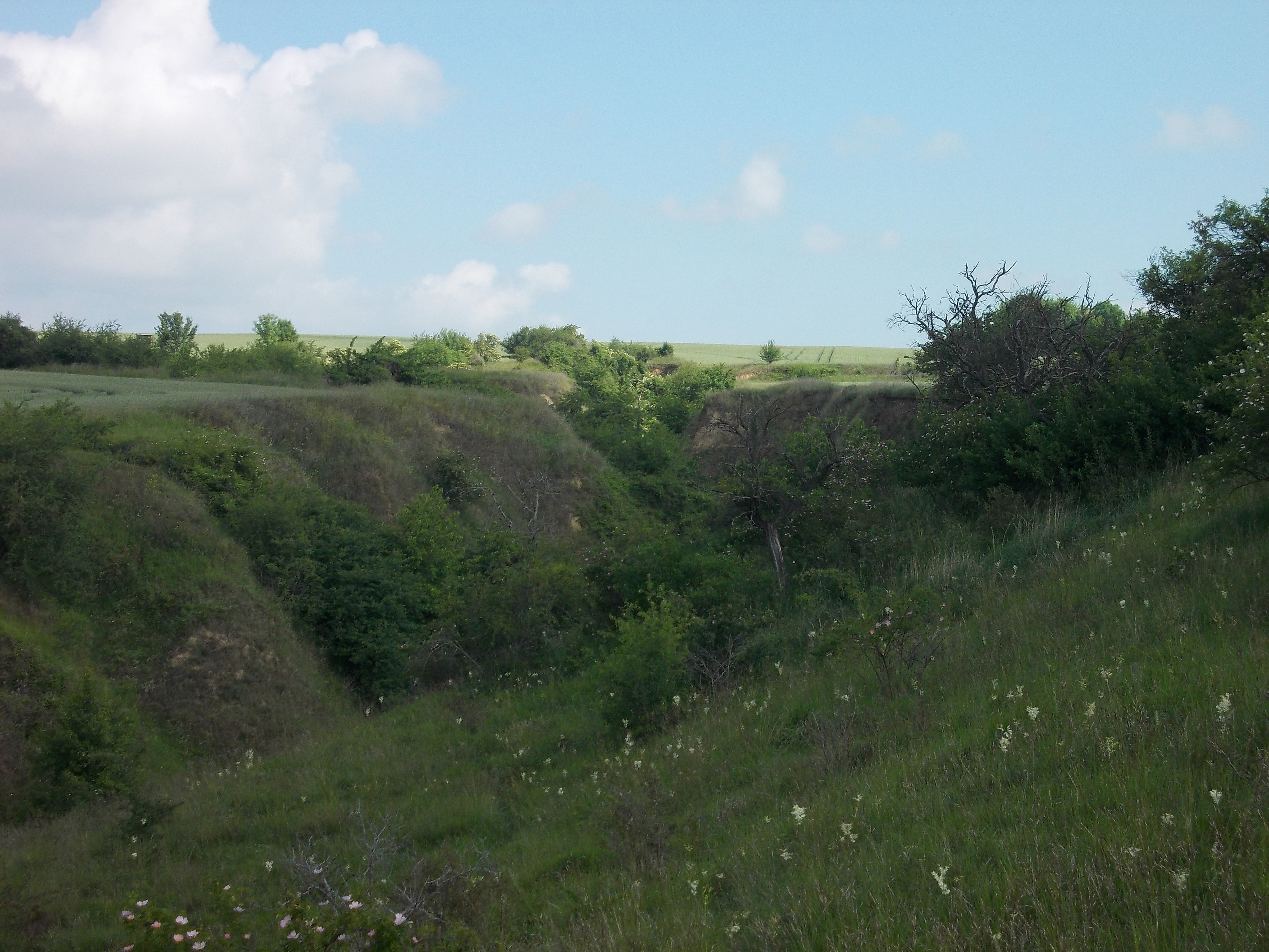 The Hammerlöcher, ravines in the loess near Langenbogen (Teutschenthal, district: Saalekreis, Saxony-Anhalt), protected as a natural monument